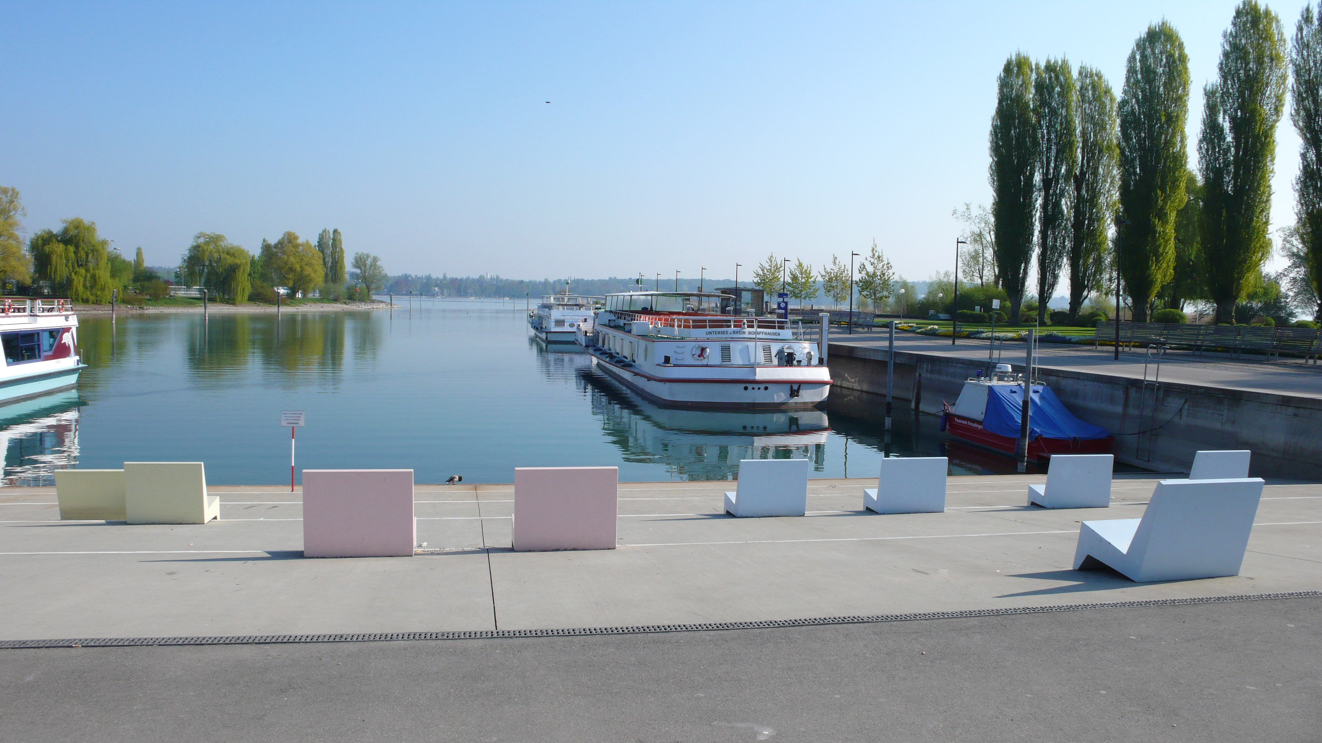 Harbour of Kreuzlingen, Switzerland.